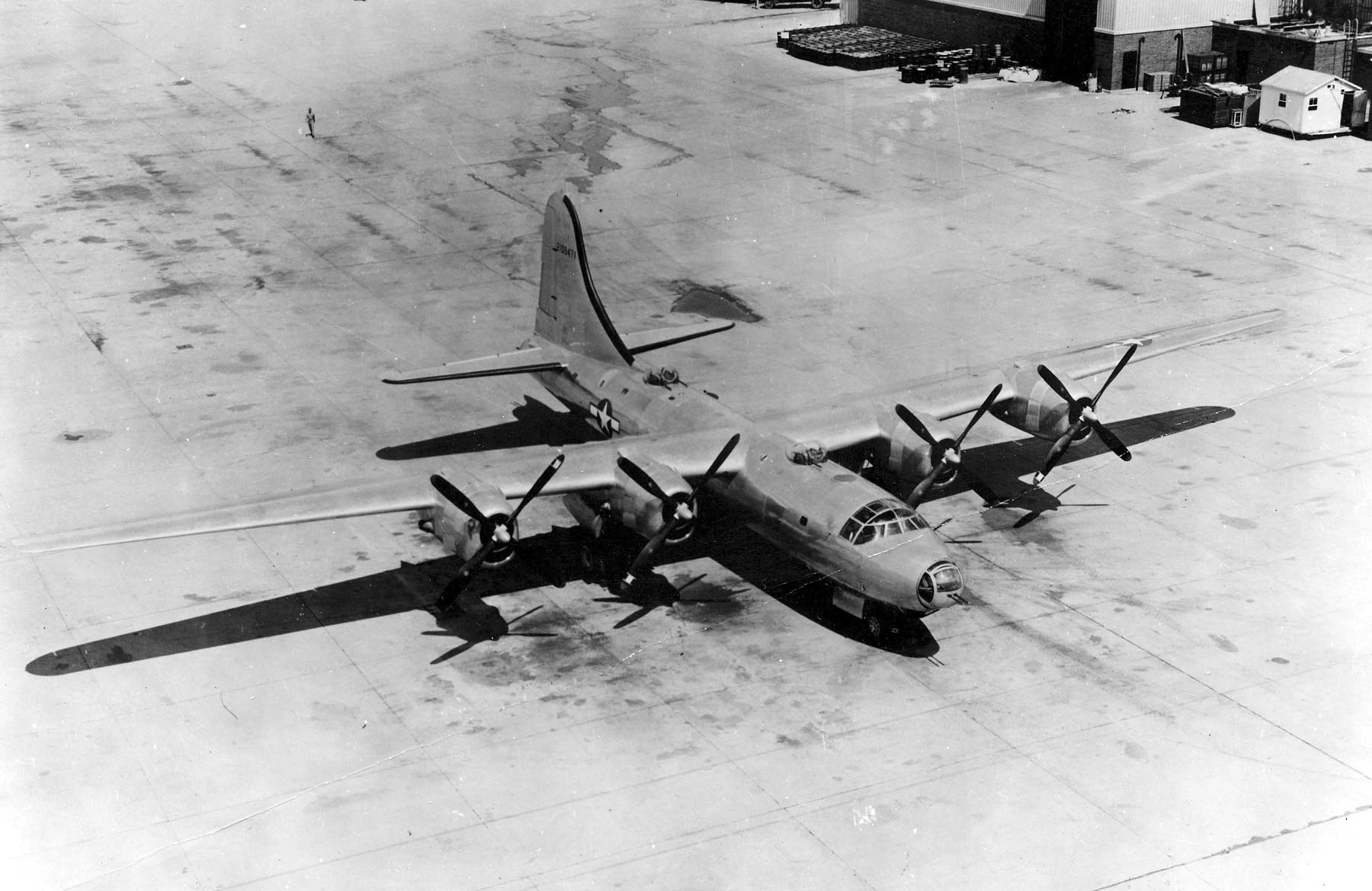 Consolidated B-32 Dominator on ground.